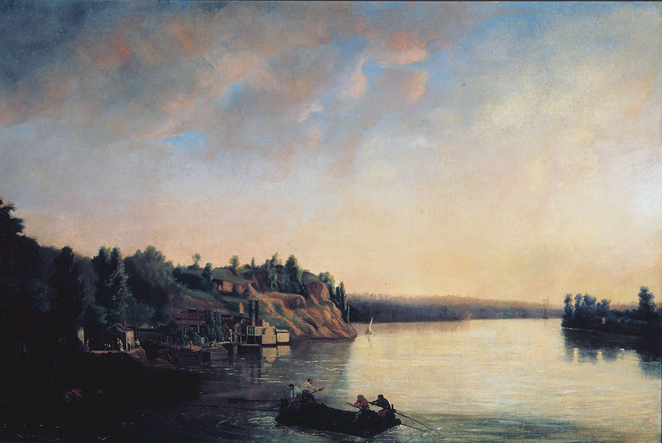 Natchez under the Hill by Louis Joseph Bahin, 1852, oil on canvas, Morris Museum of Art, Augusta, Georgia